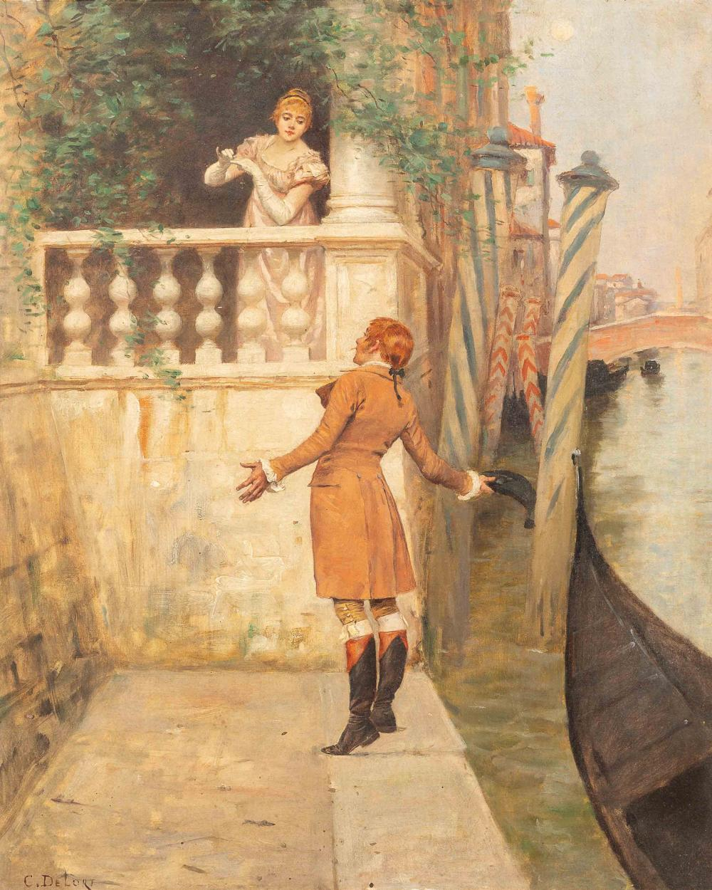 Romantic encounter in Venice